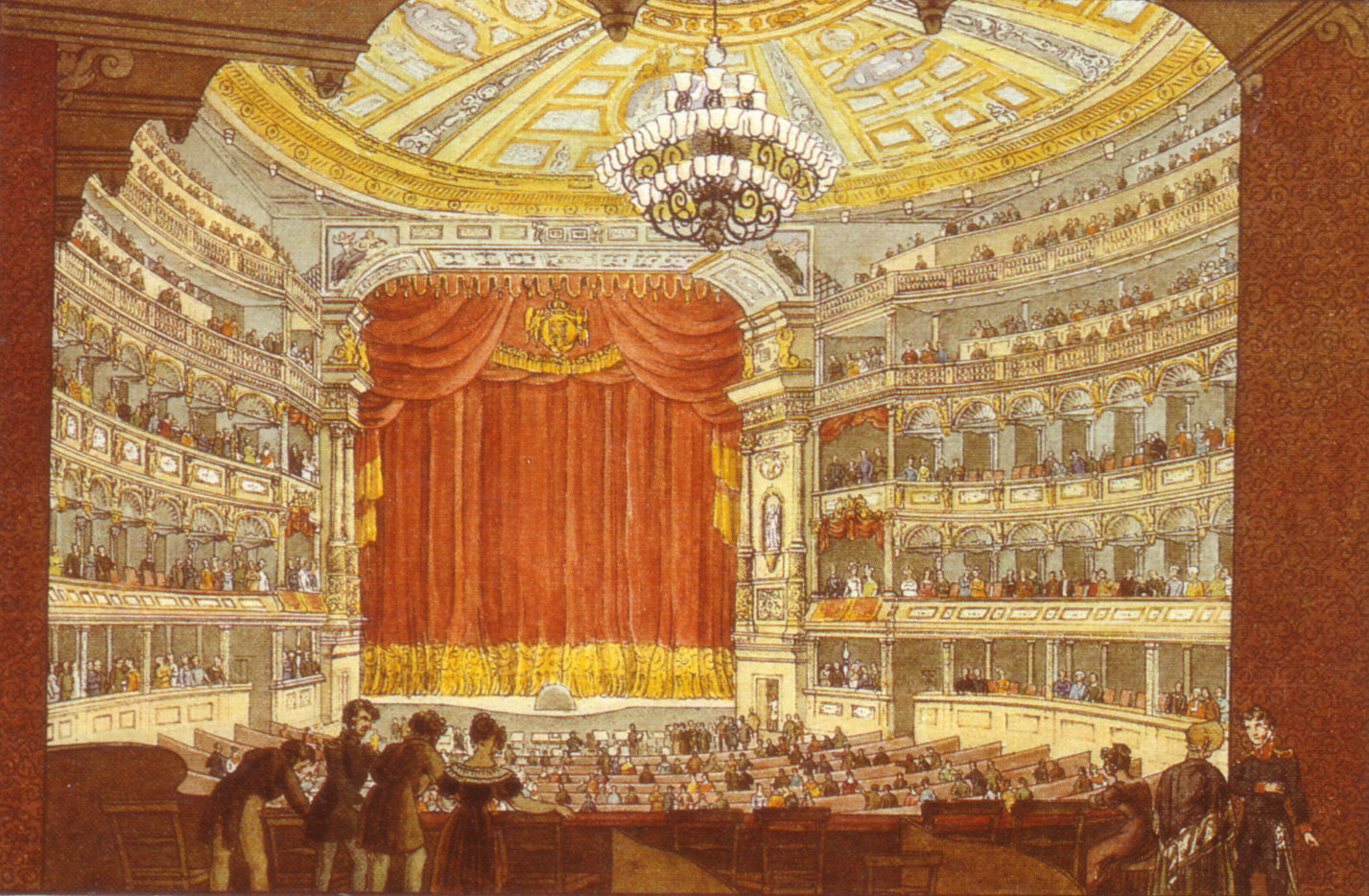 Dresden, Germany: Interior of the first Hoftheater (Semperoper) built by Gottfried Semper (opened 1841).